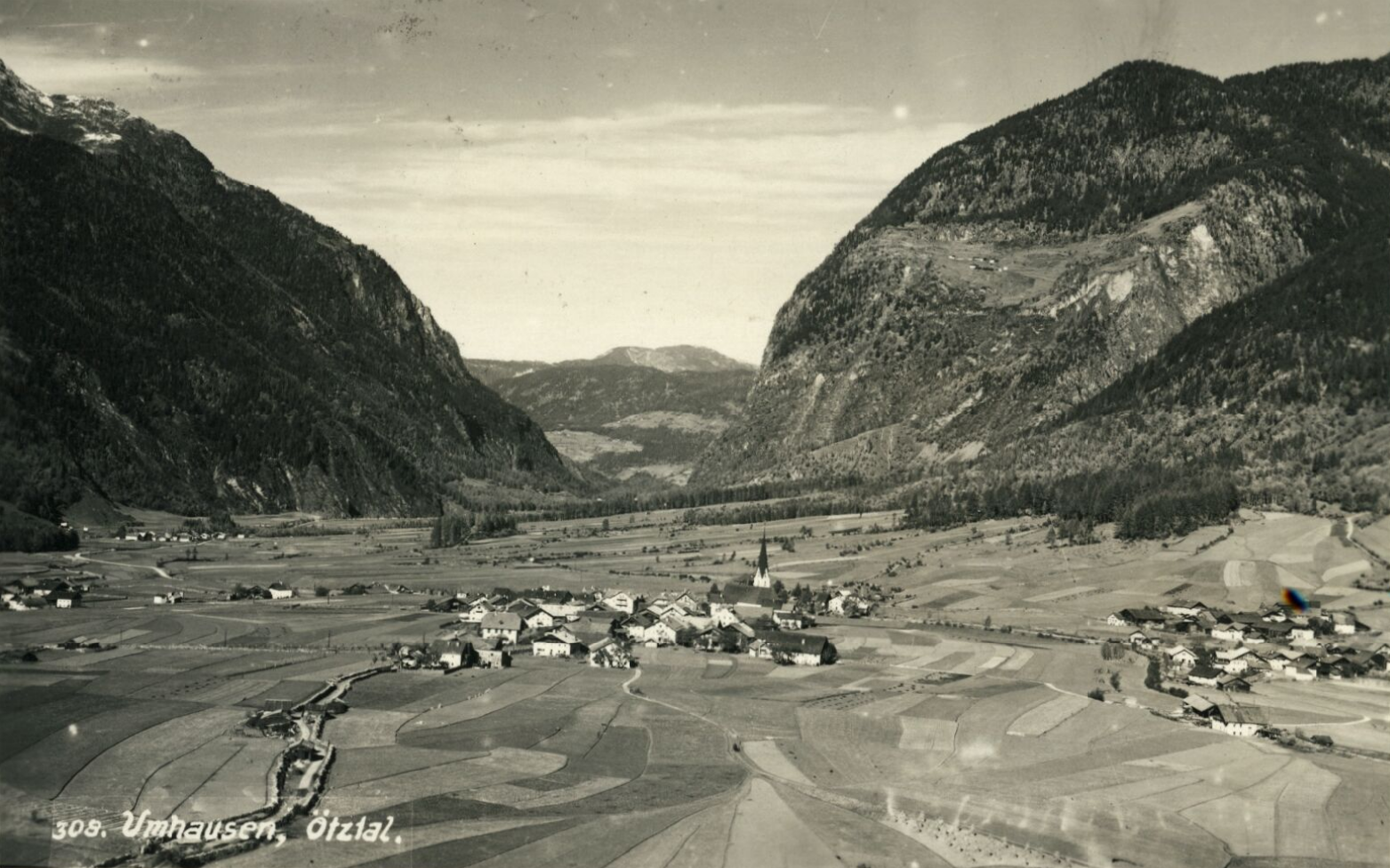 Histroric postal card from Umhaausen, view from south